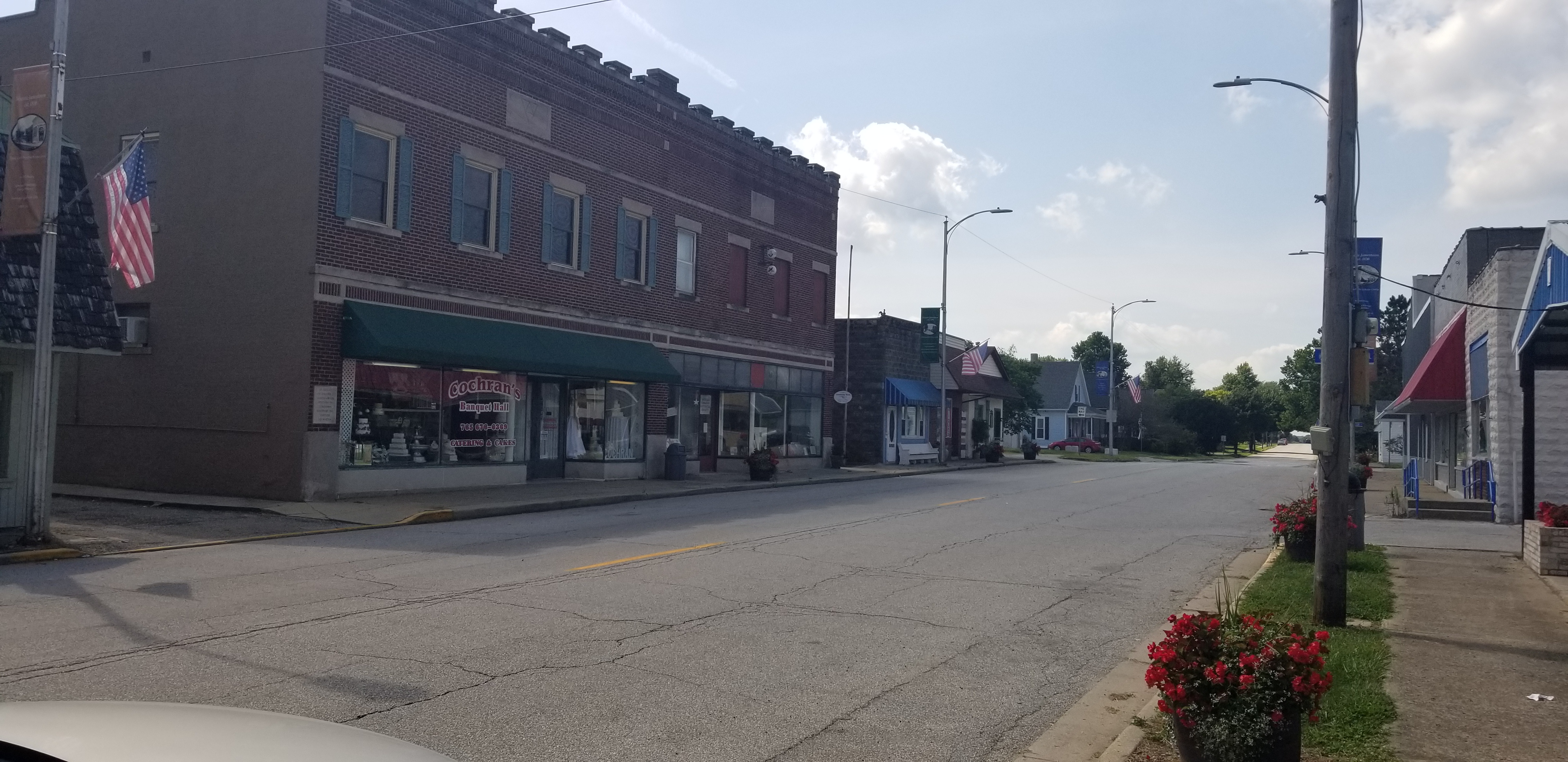 Downtown